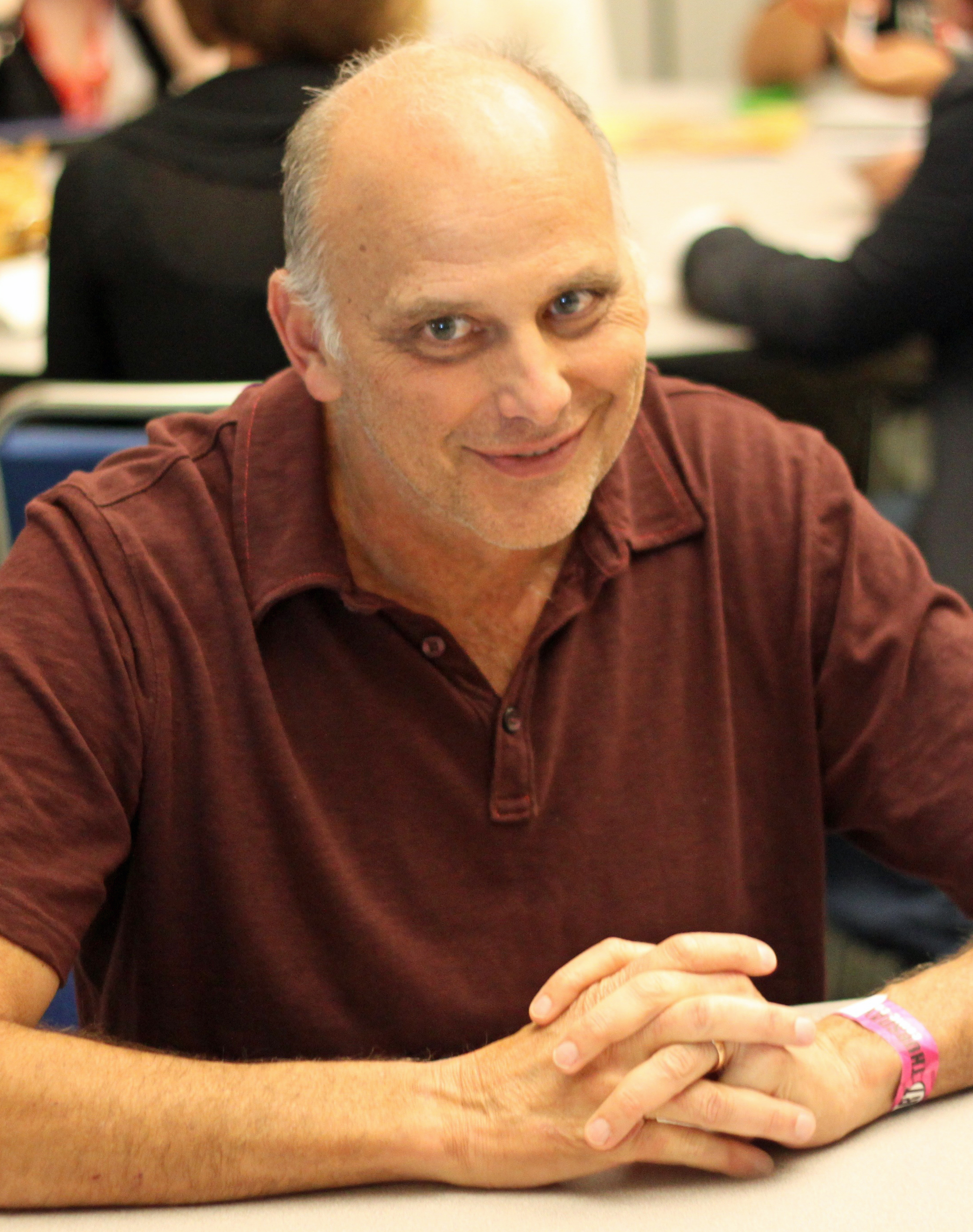 Kurt Fuller at the 2011 Comic-Con International in San Diego, California, U.S.